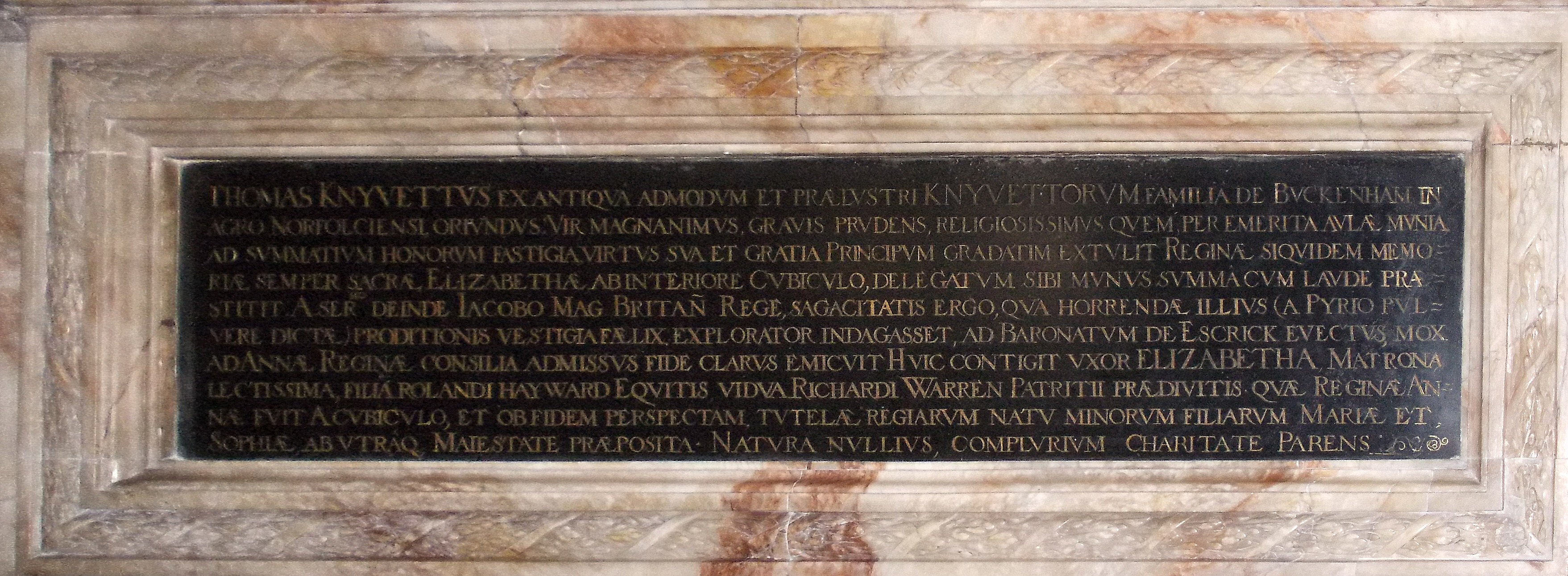 Latin Inscription on Lord Knyvett's tomb Stanwell Church